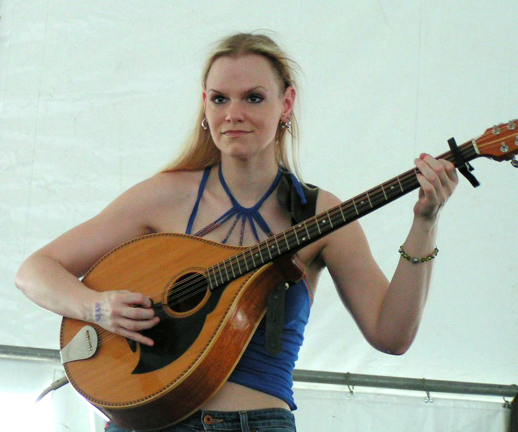 Beth Patterson at Dublin Ohio Irish Fest 2006